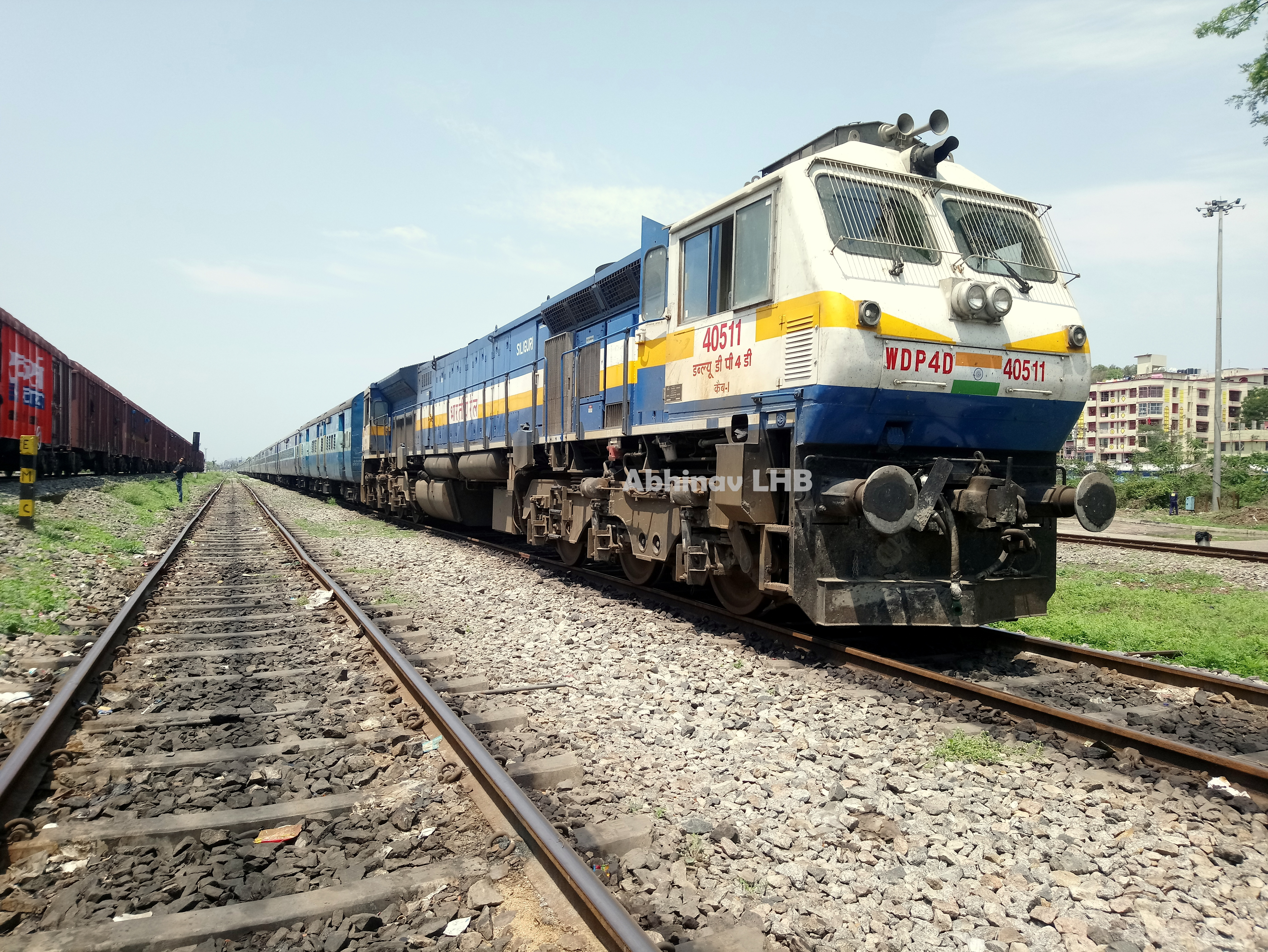 Siliguri (SGUJ)'s dual-cab EMD WDP4D #40551 waiting with the empty rake of 12505/06 Guwahati - Anand Vihar - Guwahati Northeast Express at New Guwahati.